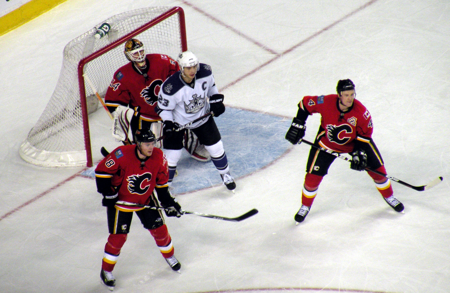 The Calgary Flames defend against the Los Angeles Kings during a National Hockey League game. #34 red - Miikka Kiprusoff, #18 red - Matt Stajan, #4 red - Jay Bouwmeester, #23 white - Dustin Brown.